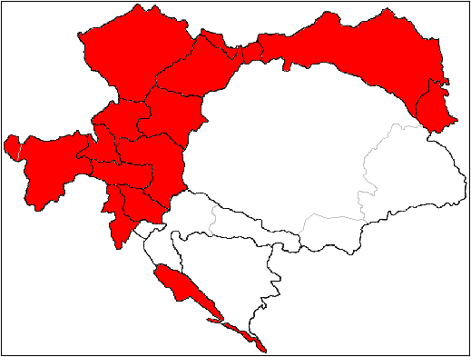 The Kingdoms and Lands Represented in the Imperial Council" (the area in red) on the map of the Austria-Hungary. These Kingdoms and Lands formed the Austrian part of the Austria-Hungary.